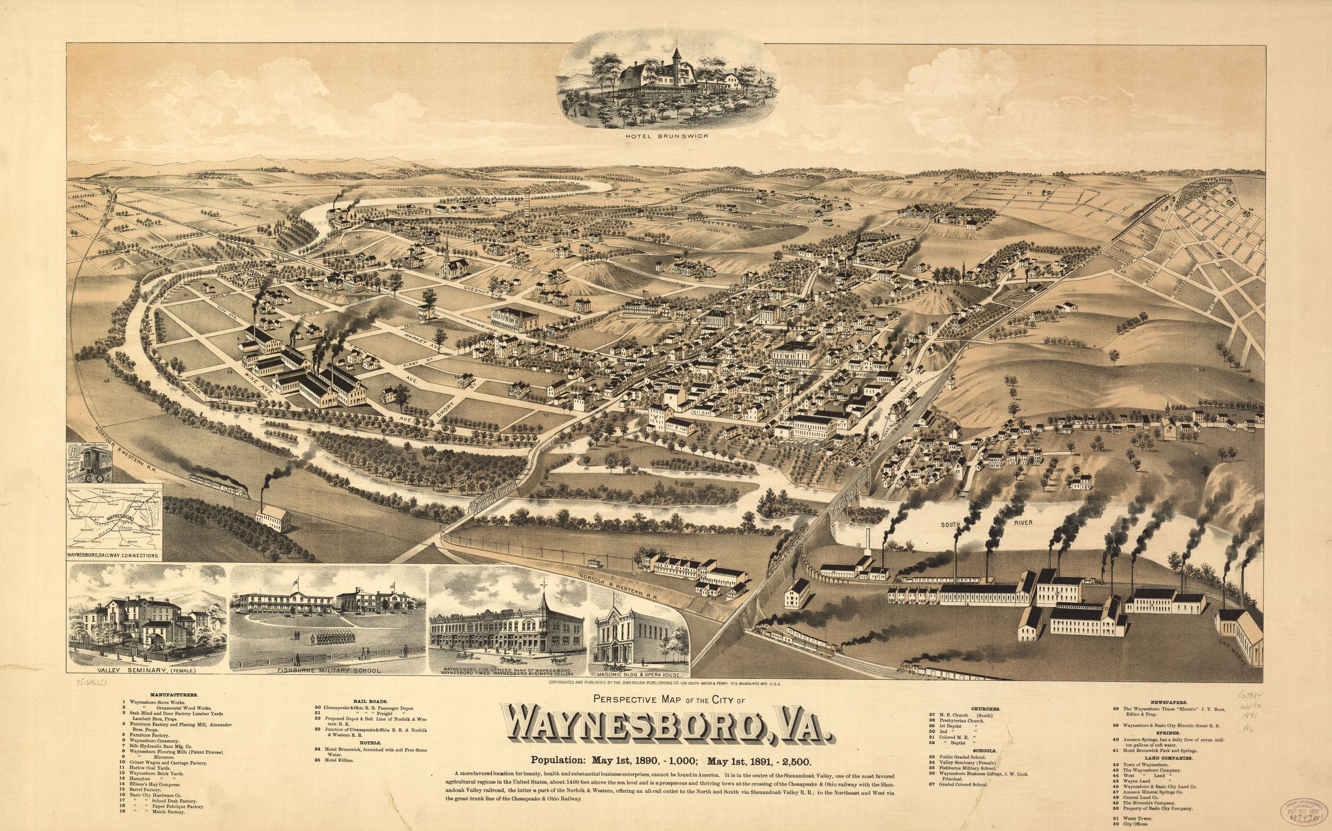 Perspective map of Waynesboro, Virginia as it appeared in 1891.